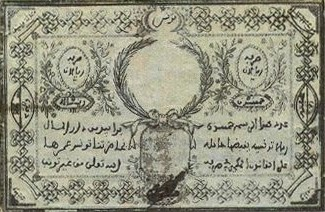 50 Tunisian Rial banknote issued in 1847: the first Tunisian banknote.